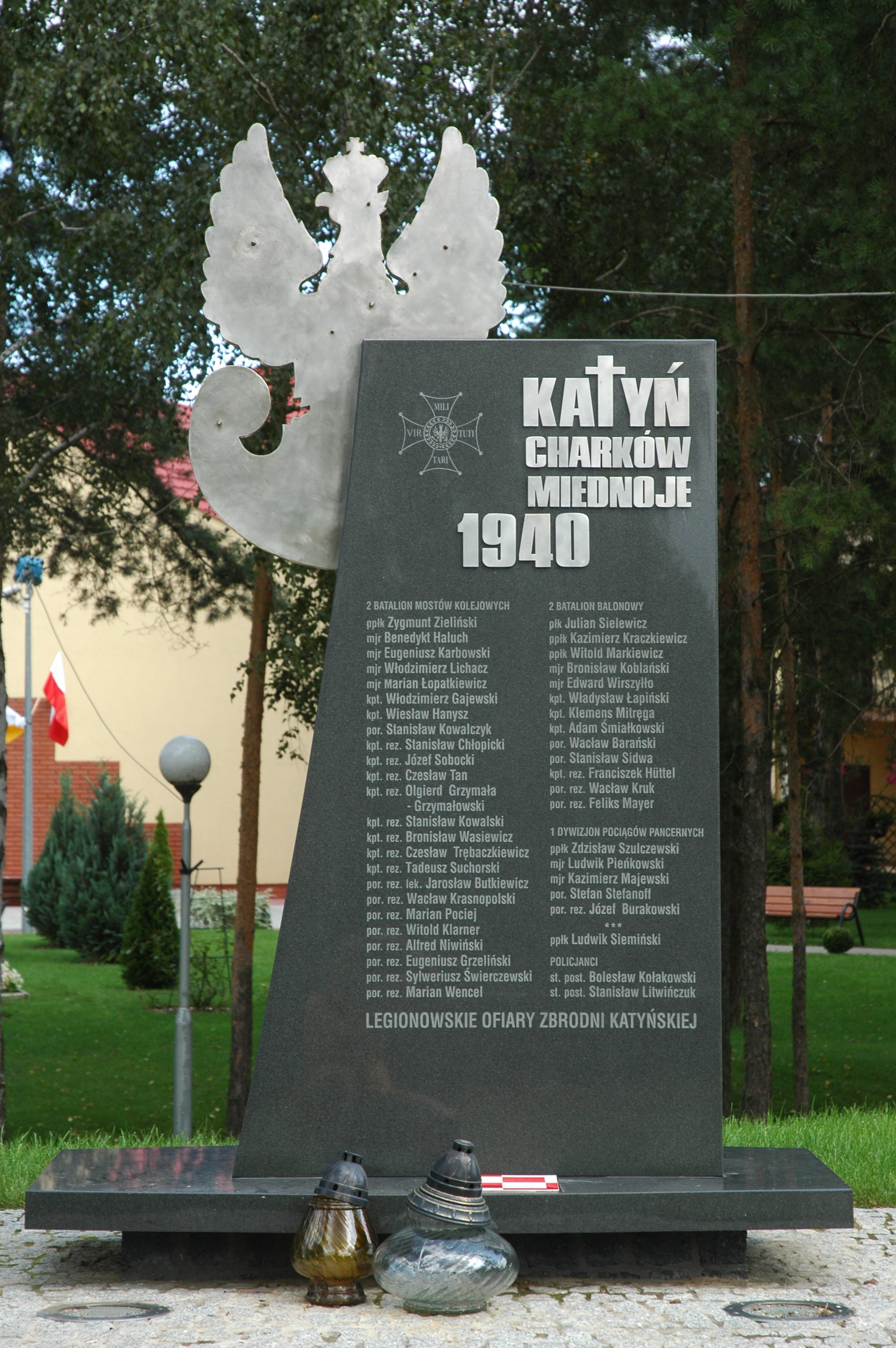 Monument to victims of the Katyn massacre Legionowskich (2) at the Church of Our Lady of Fatima in Legionowo